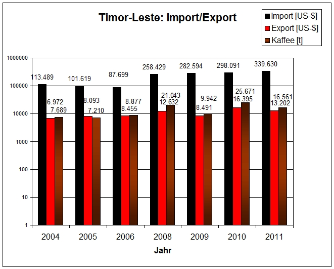 East Timor: Import and Export data in US-Dollar and Export of coffee in tons